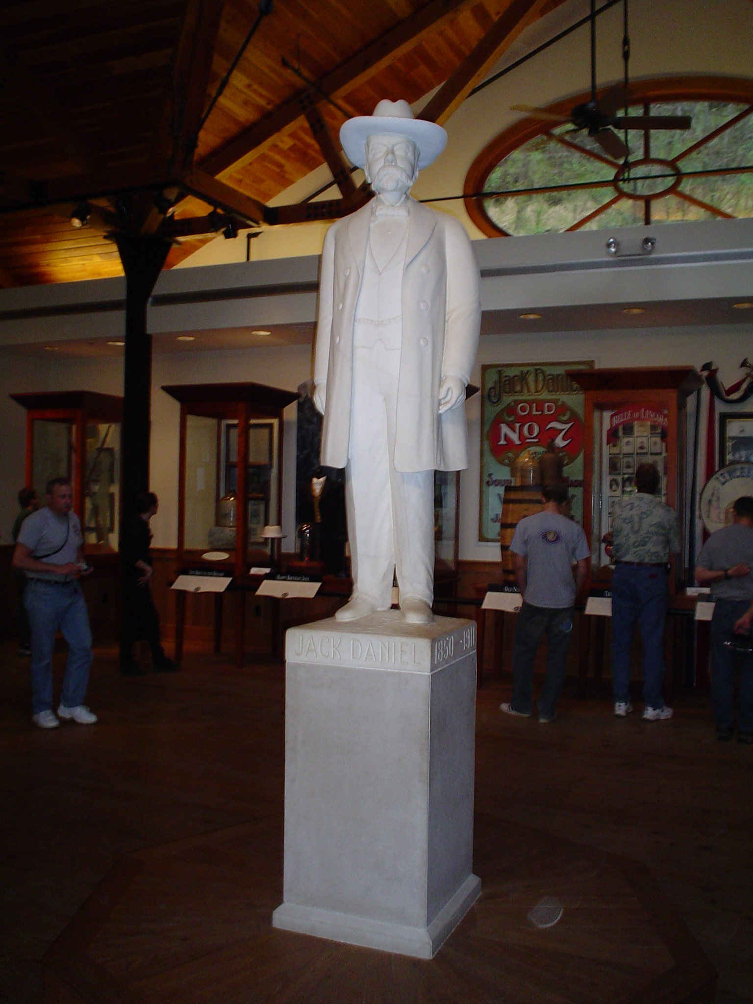 A statue of Jack Daniels inside the entrance to the vistors area of the Jack Daniel's Distillery in Lynchburg, Tennessee, USA.